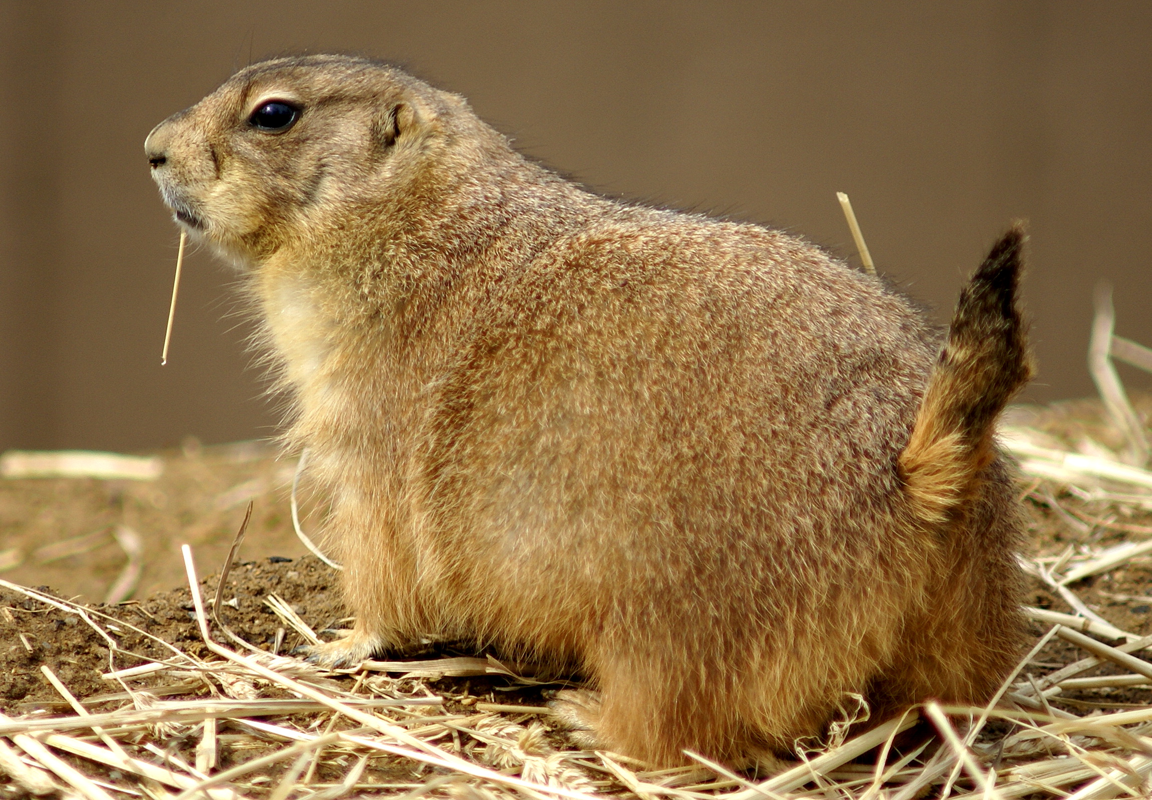 A black-tailed prairie dog at the National Zoo in Washington, D. C., forages above ground for food. During the spring, prairie dogs eat herbs, grasses, leaves, and parts of new shrubs; during the summer prairie dogs search out seeds; and during the fall and winter they favor stems and roots. Black-tails do not store food in their burrows or hibernate.